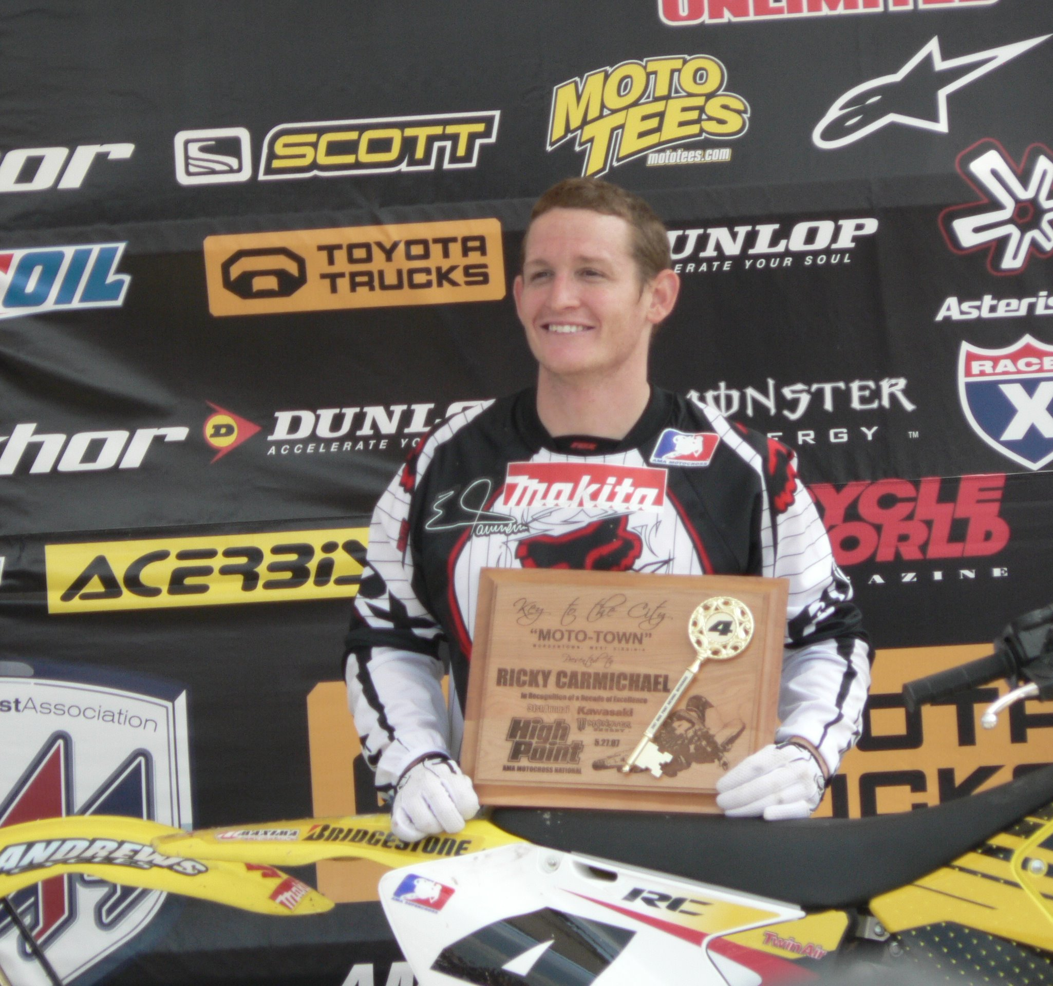 Motocross legend Ricky Carmichael receiving the key to Moto-Town. They renamed Morgantown for him for the day. You ever think these keys work? After the race he's going into people's homes taking things, sitting down to dinners. The promoters had an auction to help an injured rider. Carmichael's jersey that he wore that day went for 4 Grand. Greatest Of All Time.